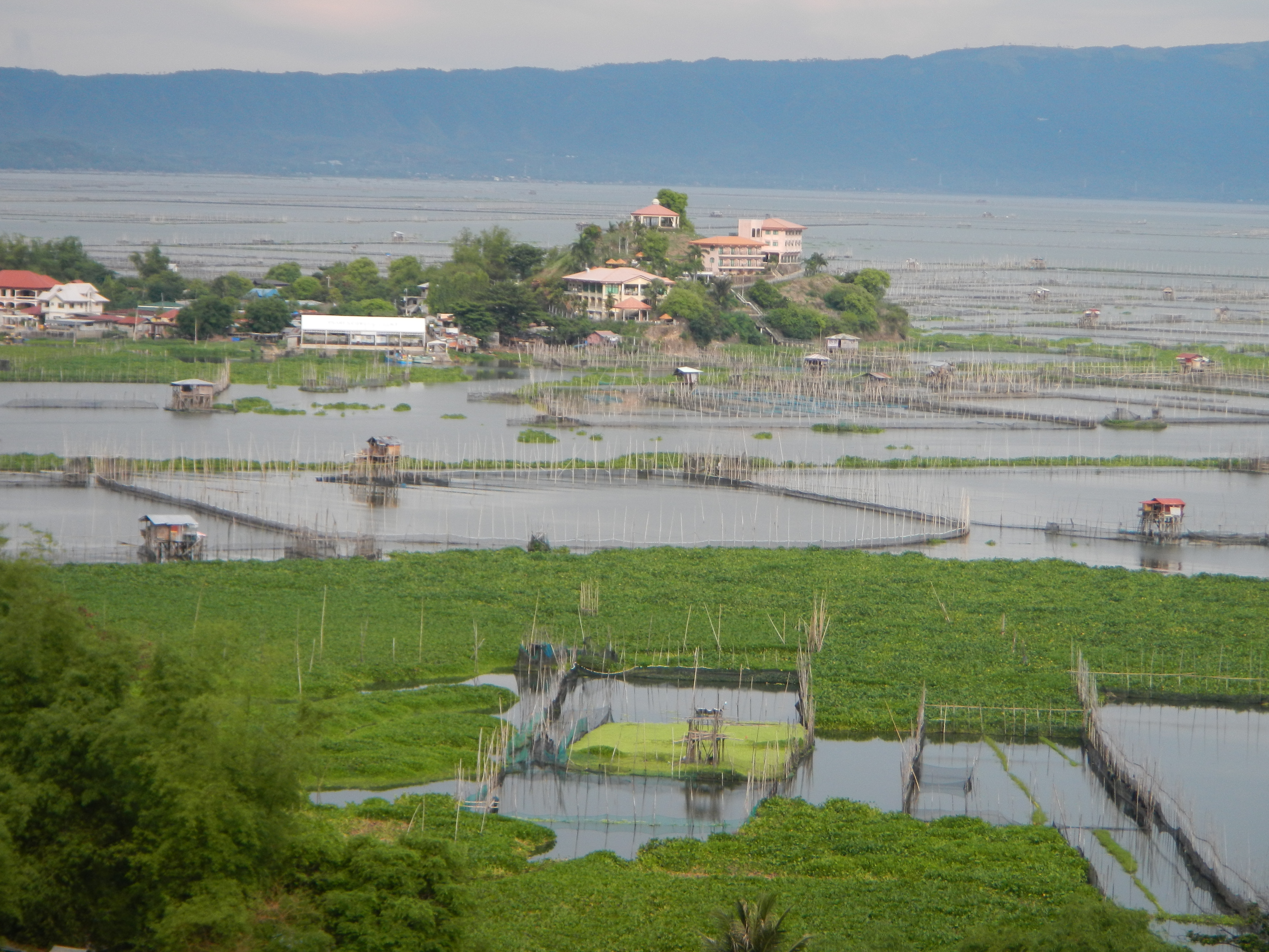 Rare, raw, unedited and original photos of the Rizal 1st Engineering District & Rizal 2nd Engineering District, Highway Boundary Km 38 + 280; Cardona, Rizal Rotary International D-3800 Welcome Monument - Scenery - Laguna de Bay[1], the fish pens and fish pond of Cardona, Rizal[2] Coordinates: 14°27'32"N 121°13'26"E [3] Website [4] geographical location: Rizal, Region 4, Philippines, Asia Geographical coordinates: 14° 29' 11" North, 121° 13' 46" East This place is situated in Rizal, Region 4, Philippines, its geographical coordinates are 14° 29' 11" North, 121° 13' 46" East and its original name (with diacritics) is Cardona.[5] [6][7] [8] Cardona is a first class urban municipality in the province of Rizal, Philippines. According to the 2010 census, it had a population of 47,414 inhabitants in 7,953 households. Cardona is in District 2 of Rizal. Cardona is politically subdivided into 18 barangays, 11 of which are on the mainland and 7 on Talim Island.[9] ---------[N.B. June 2, Sunday day, 2013 Photography of Angono, Rizal[10], Binangonan, Rizal[11] and Cardona, Rizal[12]: 80% cloudy and 20% sunny weather using my Nikon AW 100 waterproof shockproof camera. From Bulacan at 10:45 a.m., I took photo at 12:25 pm of Goldenhills Jewelry of Antonio Z. Atienza, Jr.[13] in Robinsons Ortigas; and reached Angono, Rizal junction, crossing at 2:06 pm, then took photos of Binangonan Municipal Hall at 2:44 pm; I finished Cardona, Rizal photography at 5:17 p.m., and arrived at Bulacan at 9:30 pm after 3+ hours of travel by bus, and started uploading via slow internet at 9:50 pm - I hereby certify that these rarest, raw, original and unedited photos are exclusive for Commons and Wikipedia never uploaded in any Internet or any site, and for the public domain without any condition.]